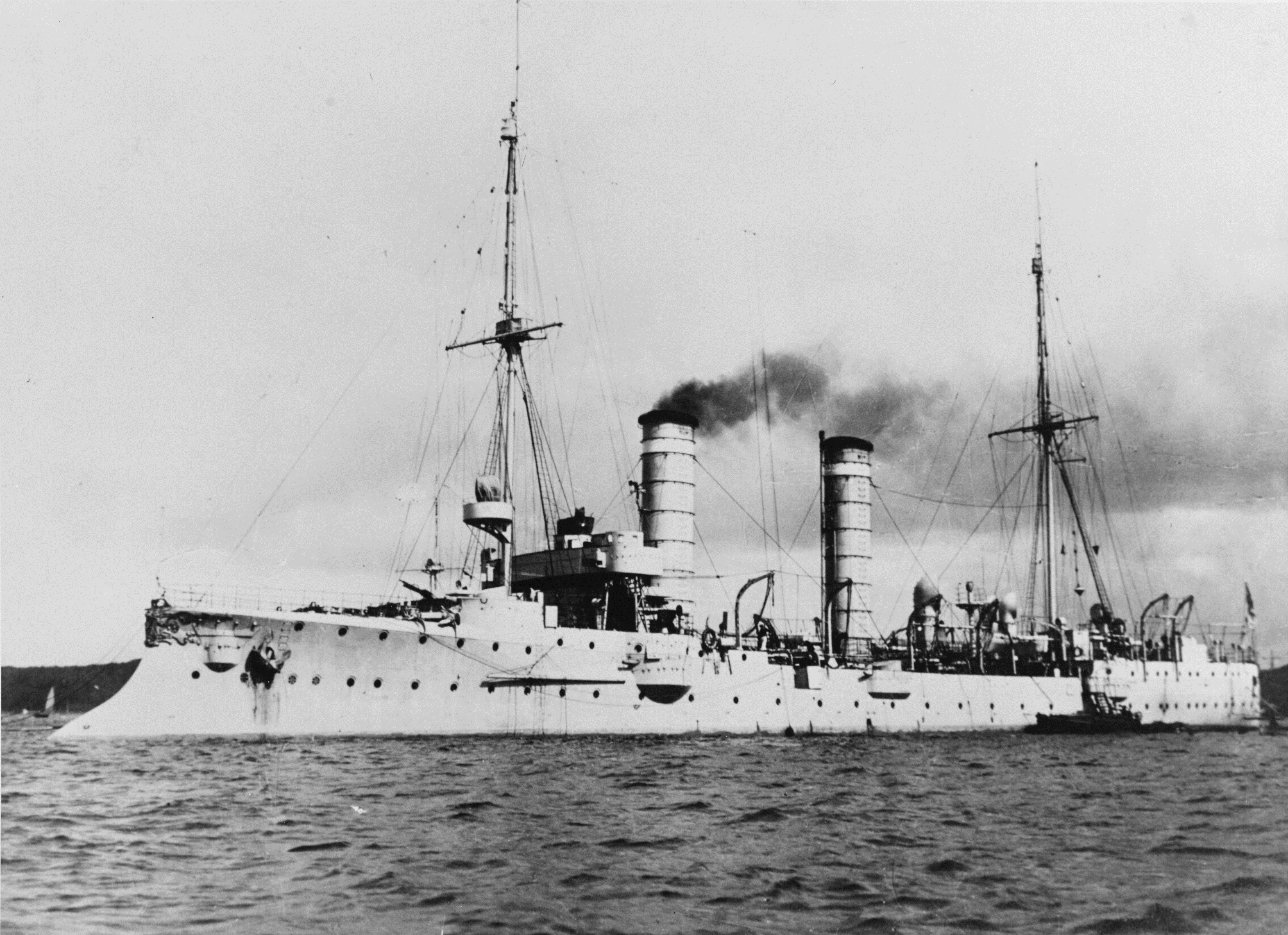 The Book of History-The World's Greatest War-Vol. XVII, The Grolier Society, New York, 1920 Specifically, here